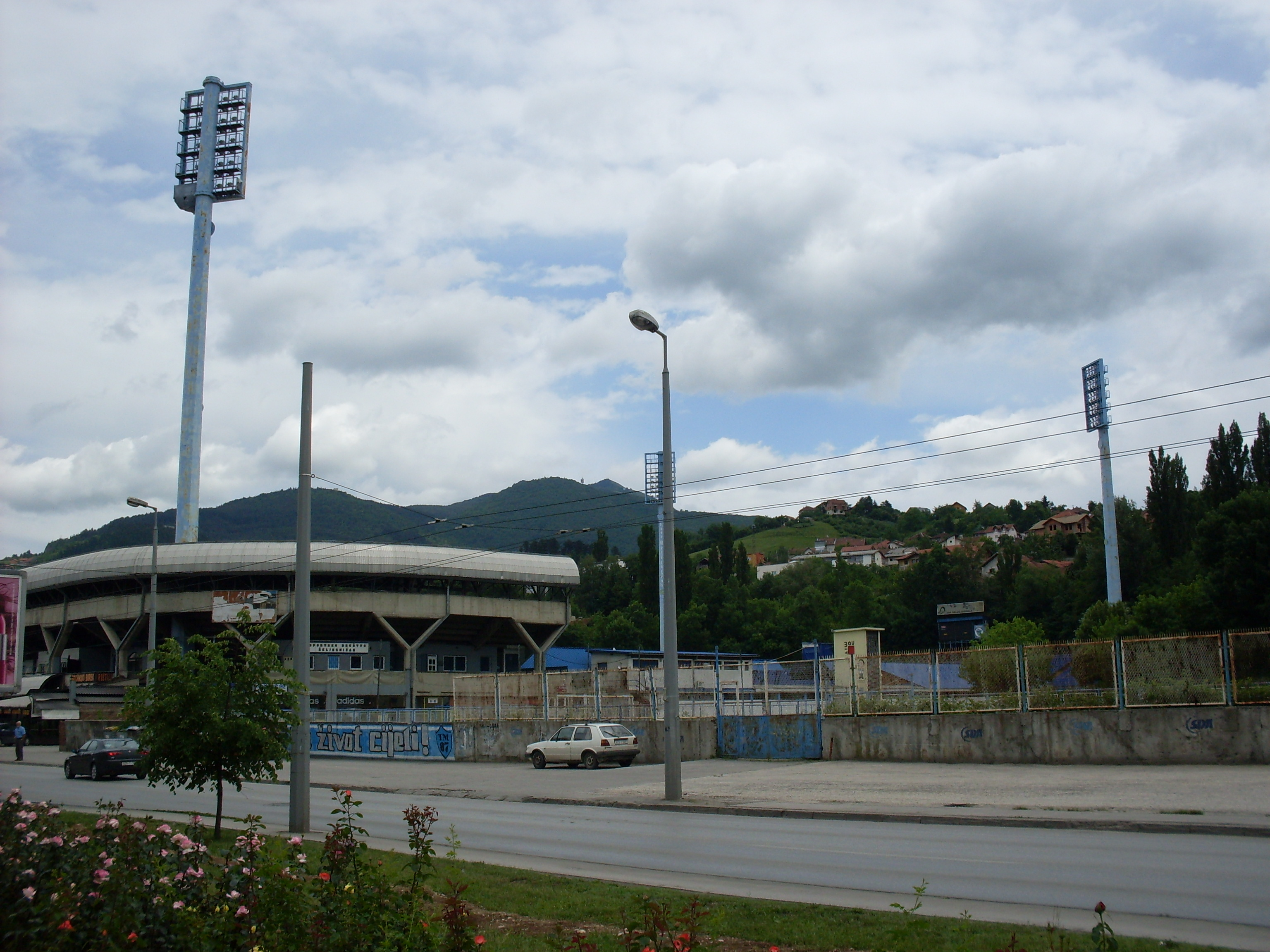 Stadium Grbavica in Sarajevo